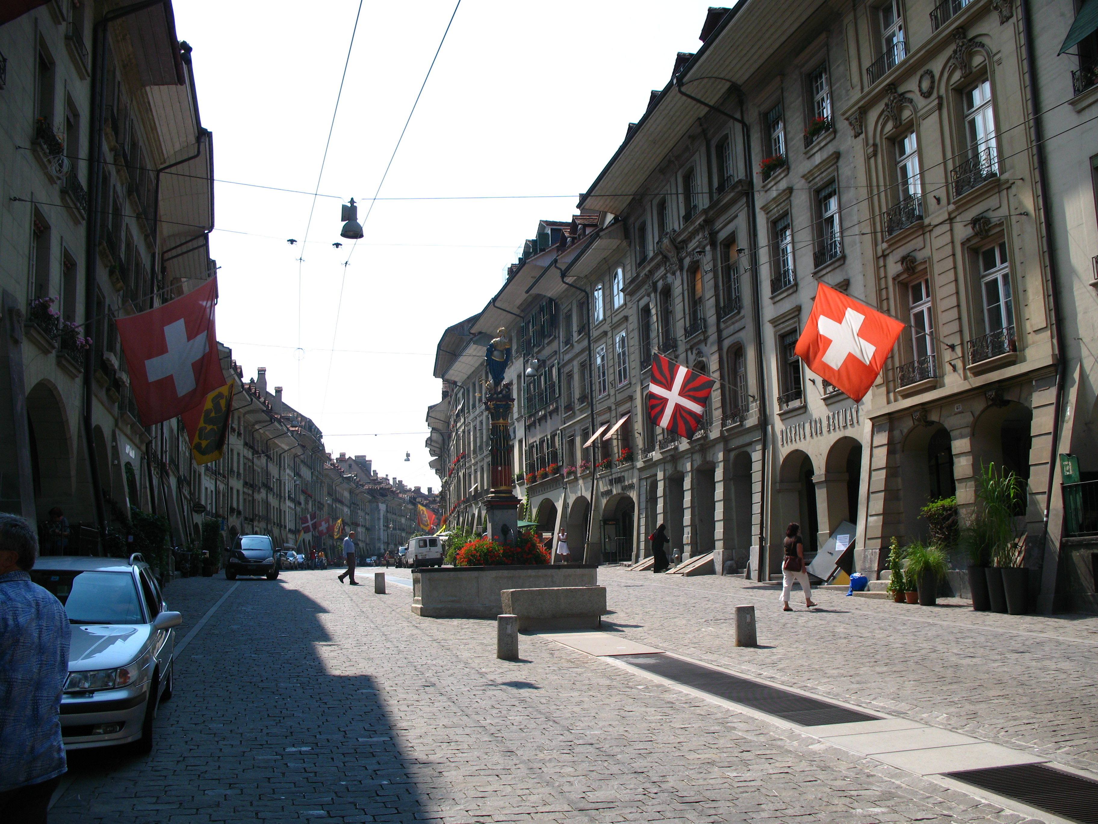 Justice Fountain on Justice Lane, Berne, Switzerland